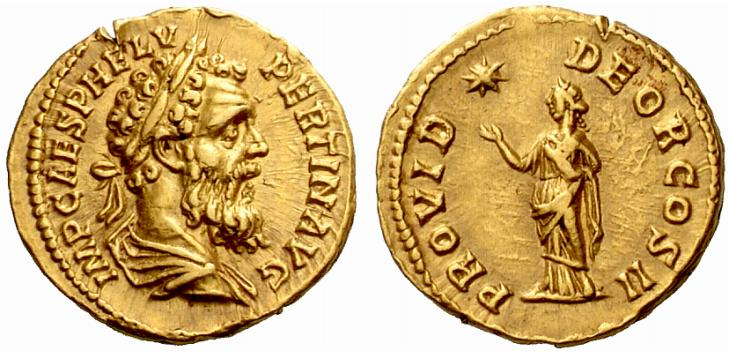 Pertinax Aureus. 193AD. IMP CAES P HELV PERTIN AVG, laureate head right / PROVID DEOR COS II, Providentia standing left, raising right hand towards star. RSC 43.